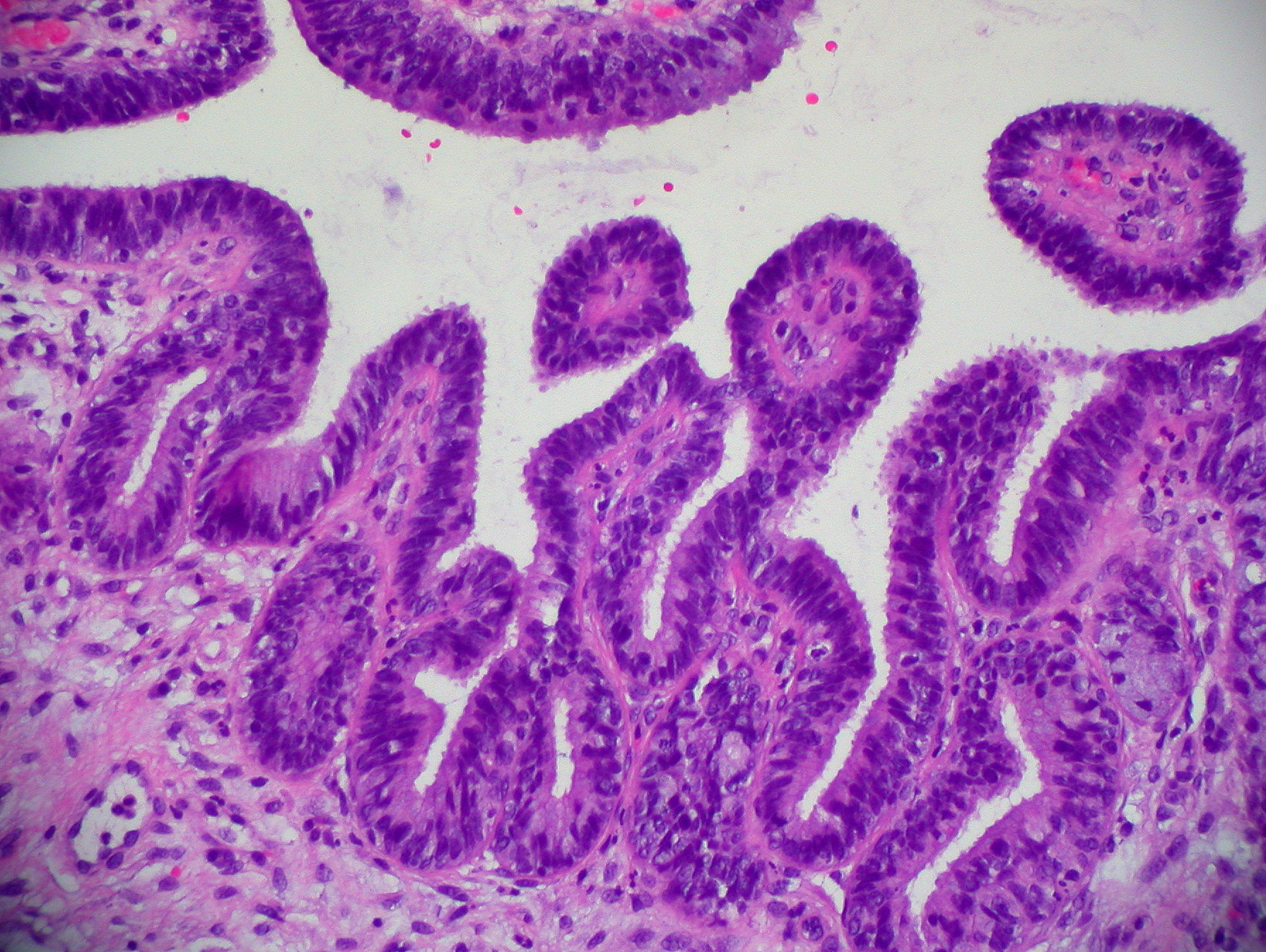 Cervix: Adenocarcinoma in situ Pathological and histological images courtesy of Ed Uthman at flickr.